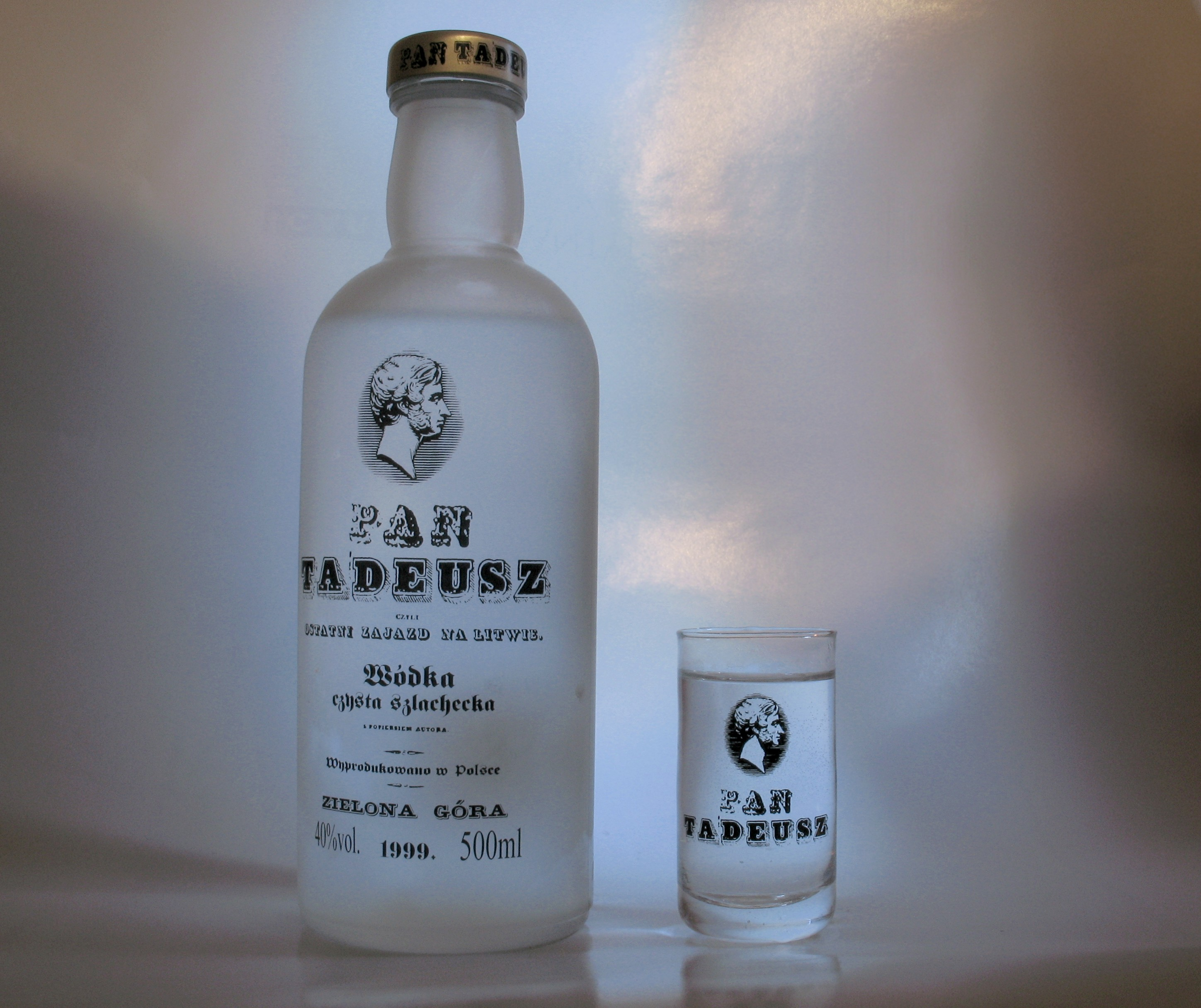 A Polish vodka "Pan Tadeusz", named after the greatest Polish epic poems